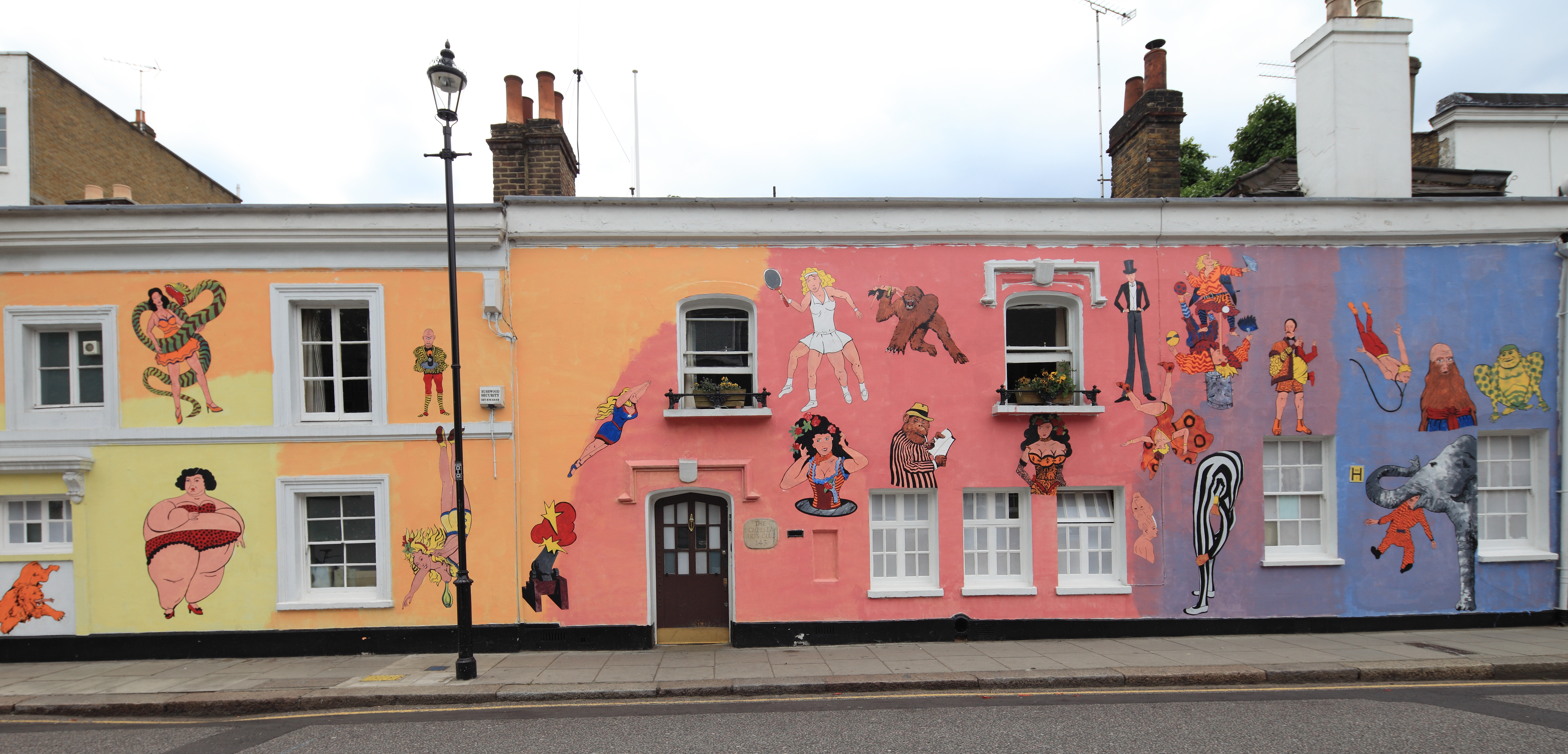 Chelsea Arts Club building